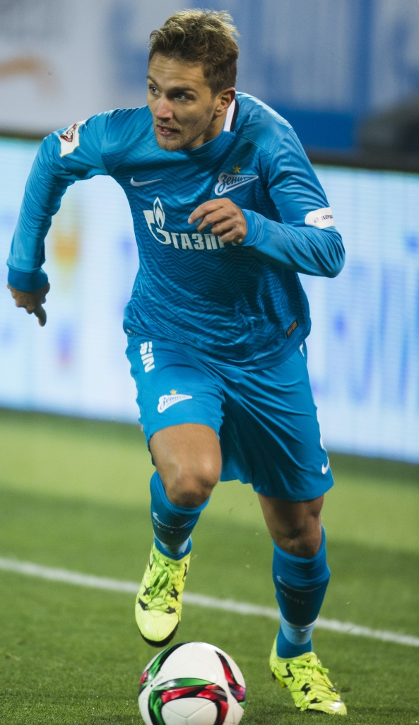 Domenico Criscito